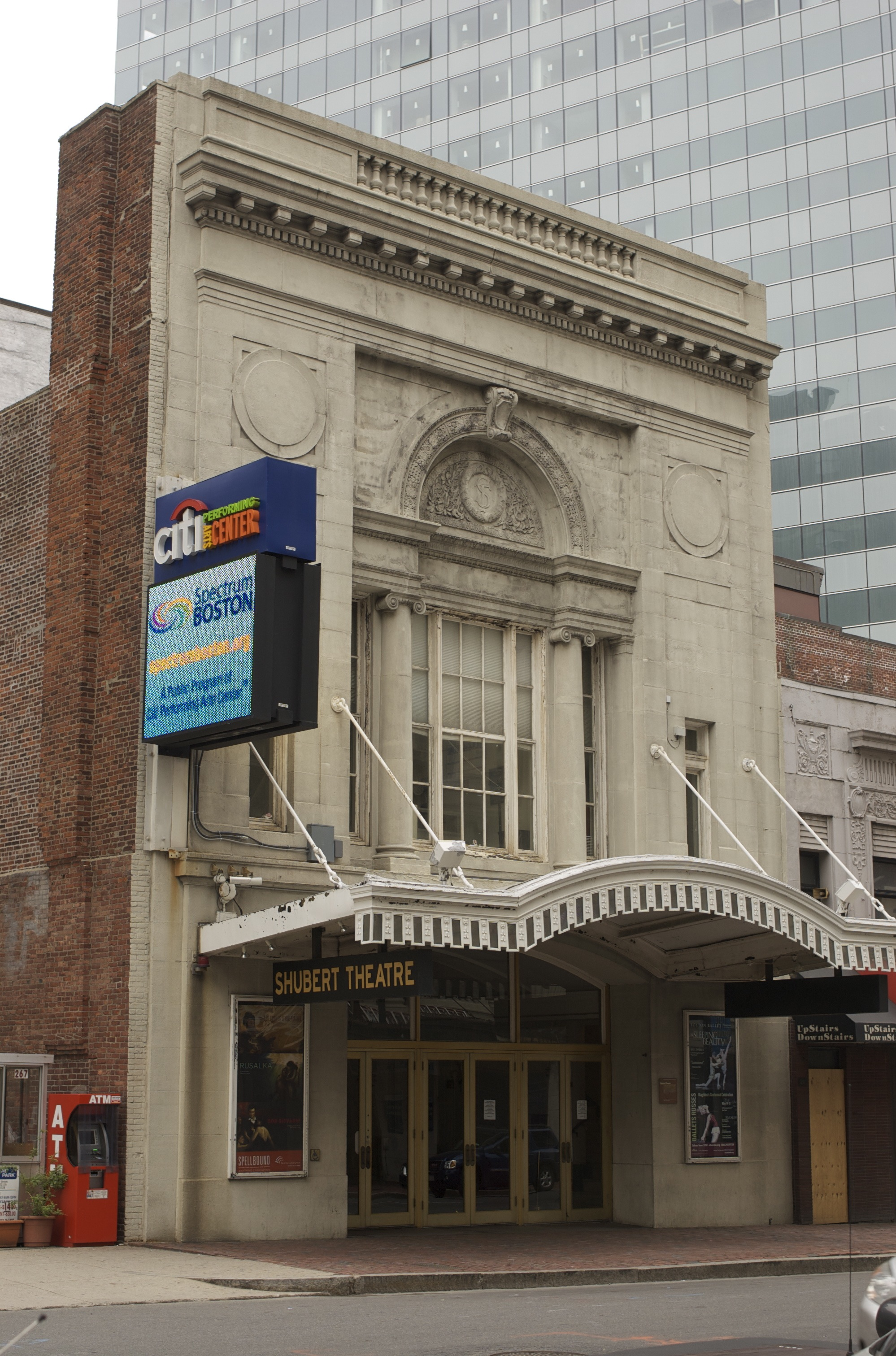 The Shubert Theatre on Tremont Street in Boston.